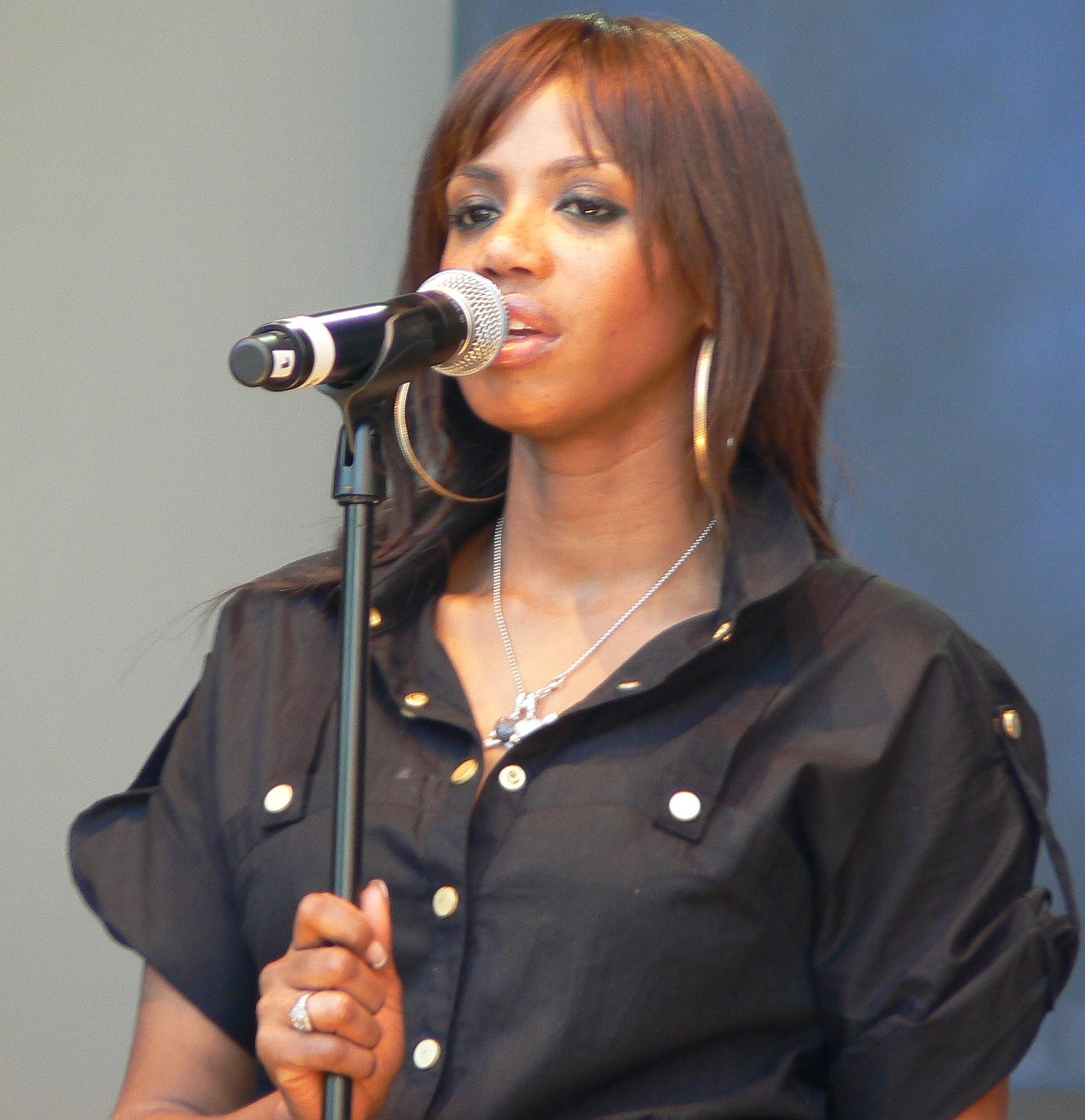 Shaznay Lewis, from All Saints (Girl Group)